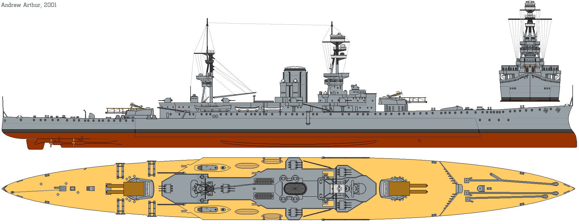 HMS Glorious, Royal Navy "large light cruiser", as she was in 1917. 1/450 scale.